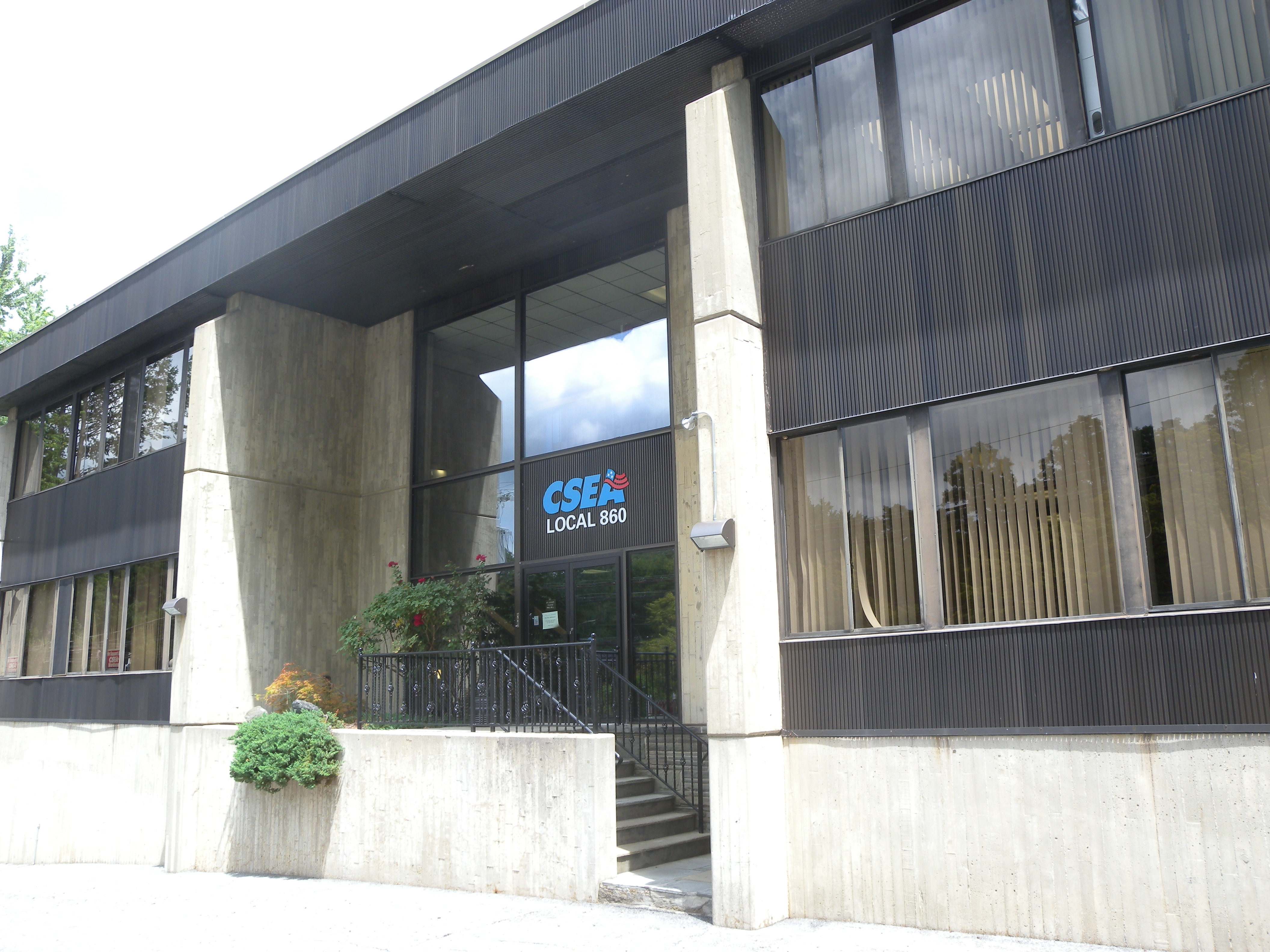 Looking northeast at Local 860 HQ on West Hartsdale Avenue on a partly sunny midday.